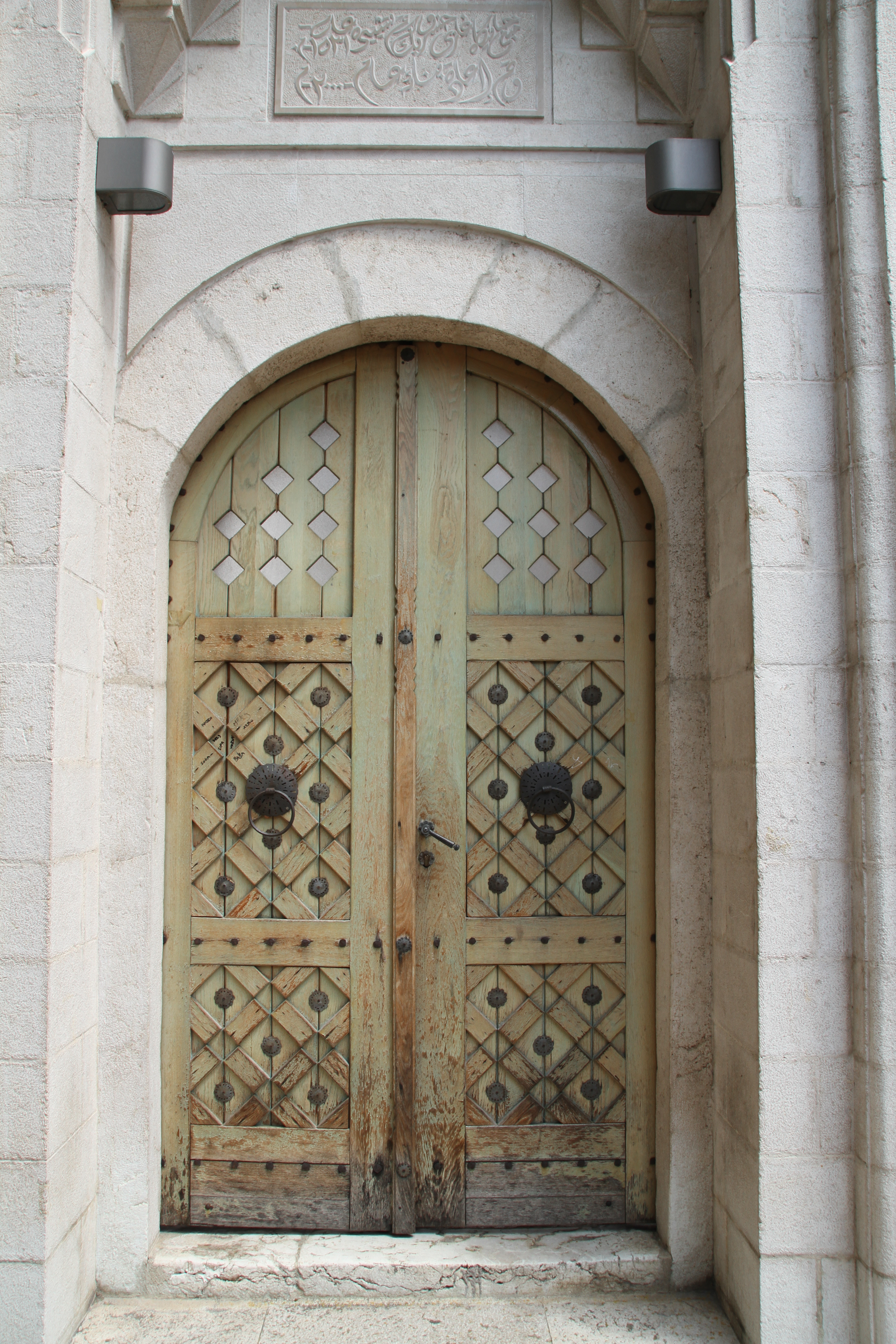 Image of the moslem (madrasa) school of Gazi Husrev Bey, in the old part of Sarajevo. Bosnia & Hercegovina.